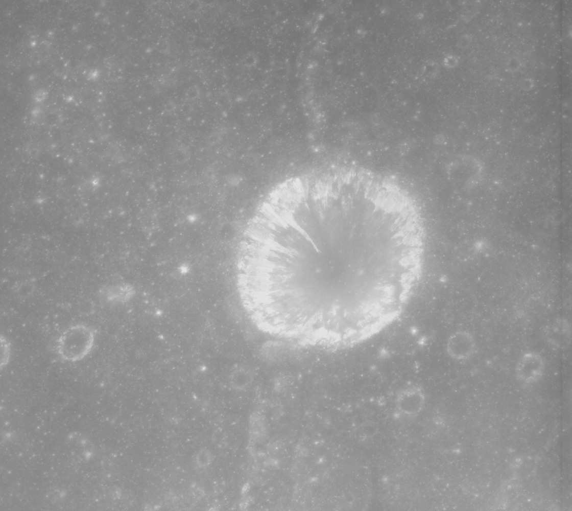 Oblique view of Jansen L crater (near Jansen), on the moon.